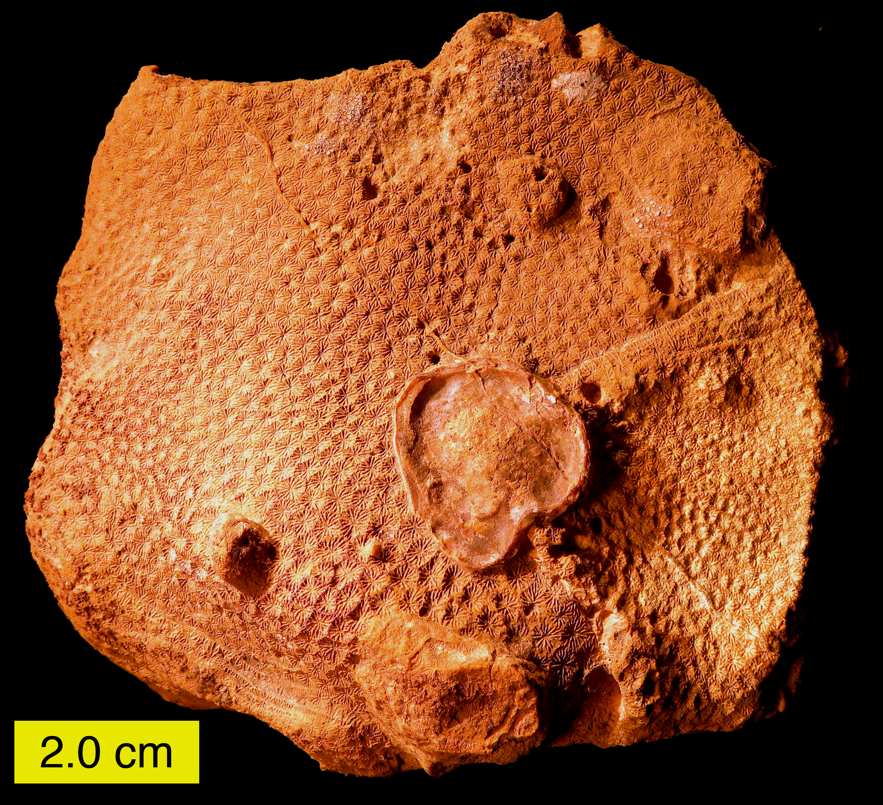 Scleractinian fossil coral from the Matmor Formation (Jurassic, Callovian) of Makhtesh Gadol, Israel.